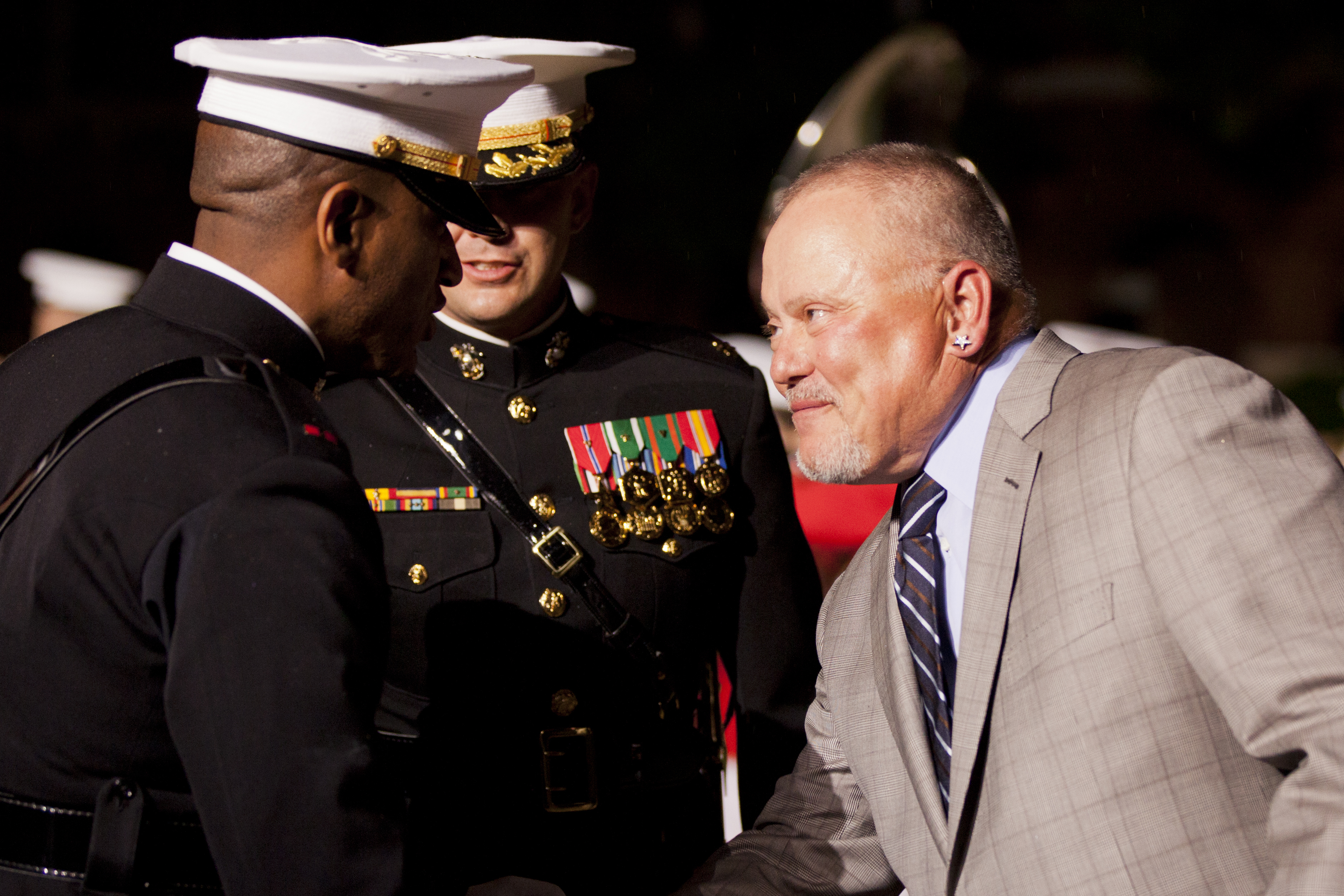 The Evening Parade guest of honor, Bob Parsons, right, greets Marines following the parade at Marine Barracks Washington in Washington, D.C., May 16, 2014. The Evening Parades are held every Friday night during the summer months. (U.S. Marine Corps photo by Cpl. Michael C. Guinto/Released)